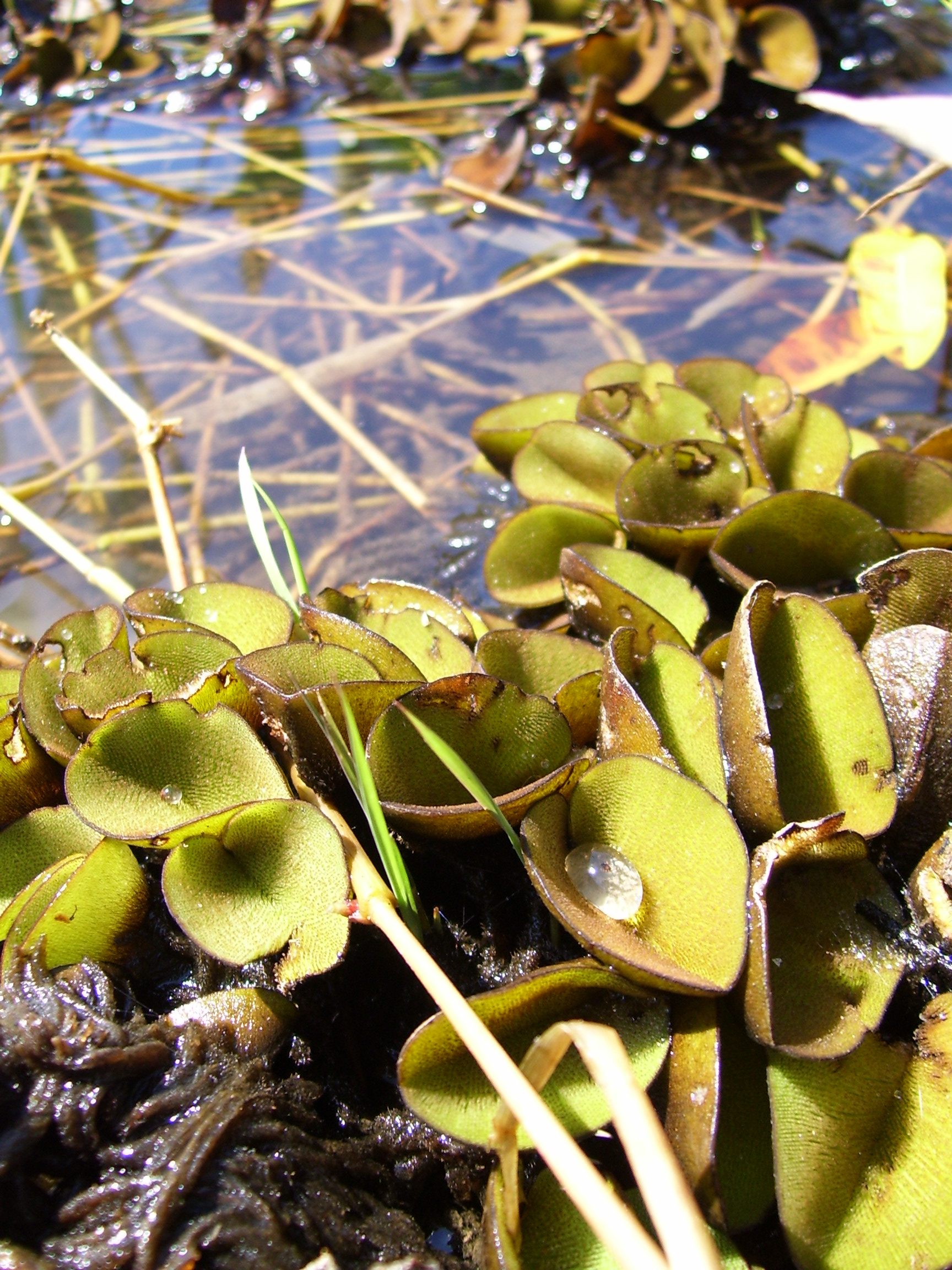 Water fern (Salvinia auriculata Aubl.), on the edge of "rodovia Transpantaneira" (Transpantaneira road) in Pantanal of Mato Grosso, Brazil.